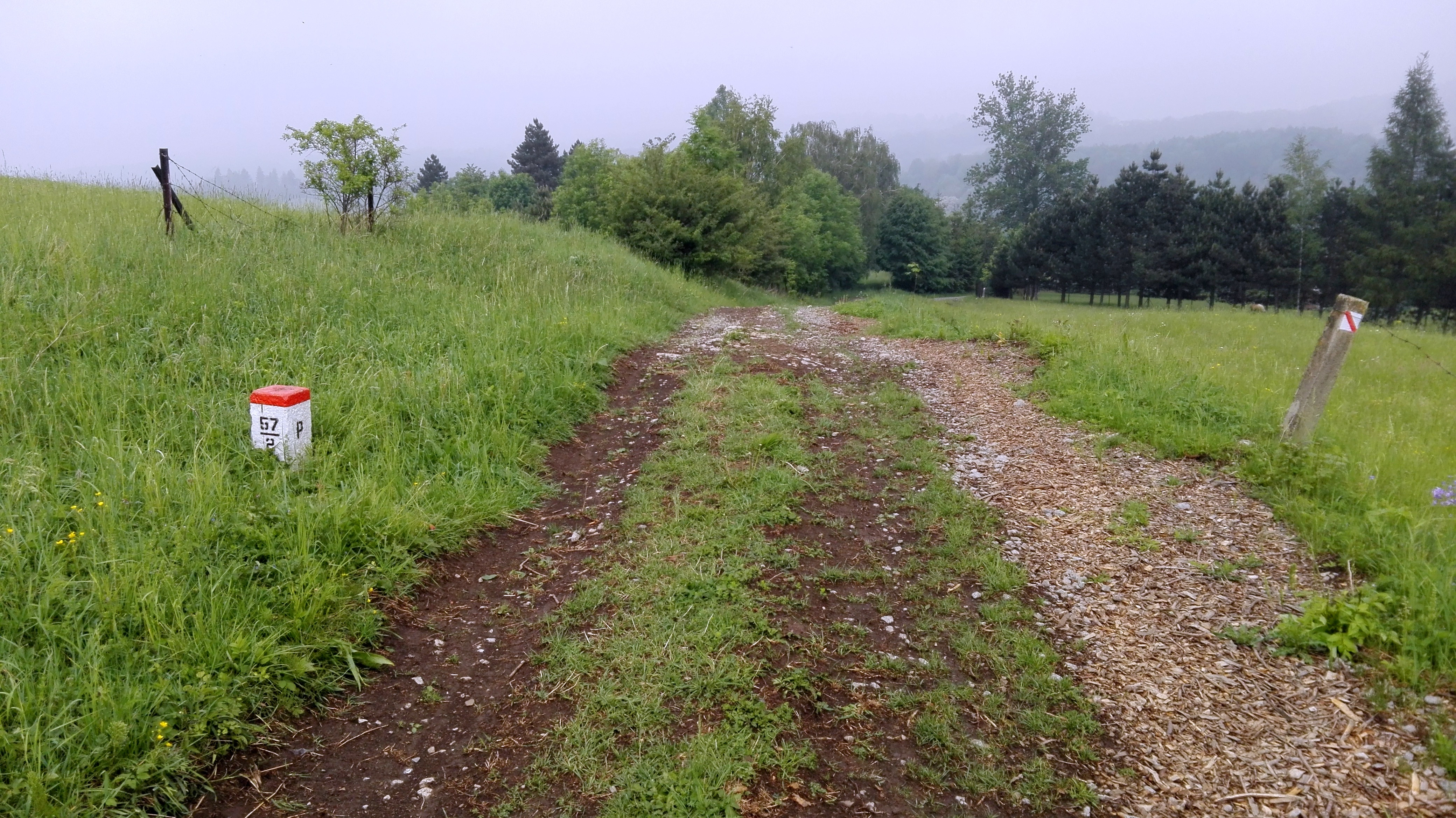 Czech Republic-Poland border in Leszna Górna